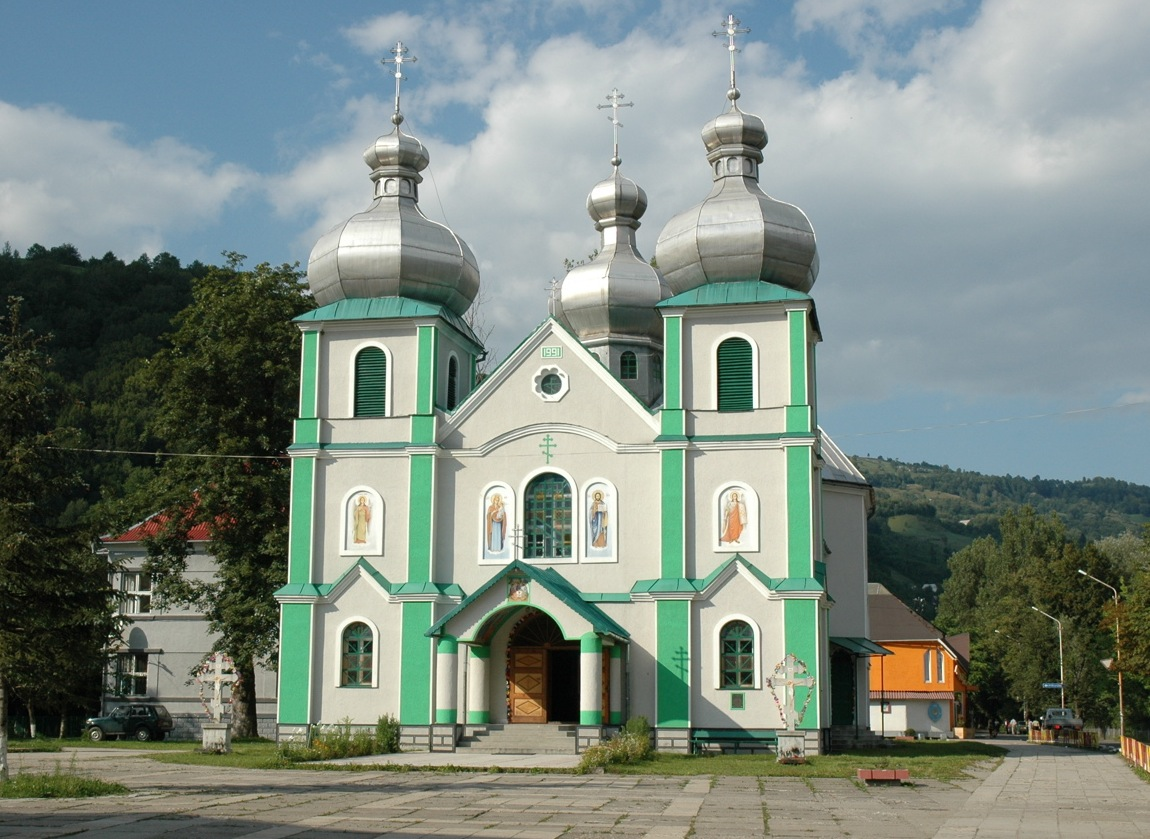 Eastern Orthodox church in Rakhiv (Ukraine)